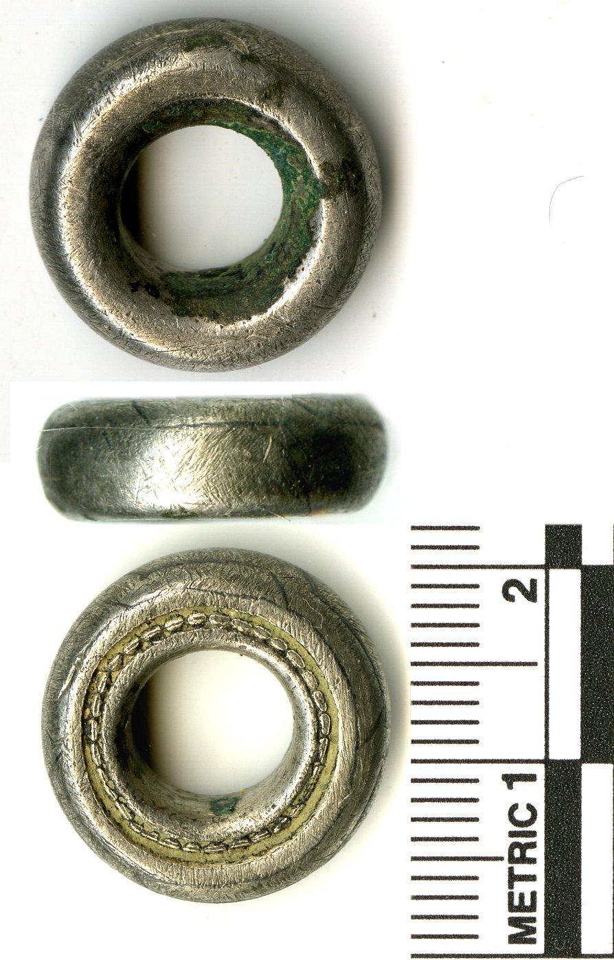 Silver ring from a sword pommel. It is flat on both faces but decorated only one, with a broad groove within which is a counter-relief line of raised ovals which all have a fine longitudinal groove scored along their length. The ring has a rounded inner and outer edge. There is some greenish copper corrosion on the inside of the perforation suggesting that there is some copper in the alloy. Sword-rings were attached to the pommels of high-status swords. Different decoration on the two faces is paralleled elsewhere (e.g. a gilded silver ring from Barham, Kent; Treasure Annual Report 1998/9, no. 54). The earliest sword-rings date from the second half of the fifth century, and they continued in use until at least the middle of the seventh; they were most common in rich Kentish graves of the sixth century.